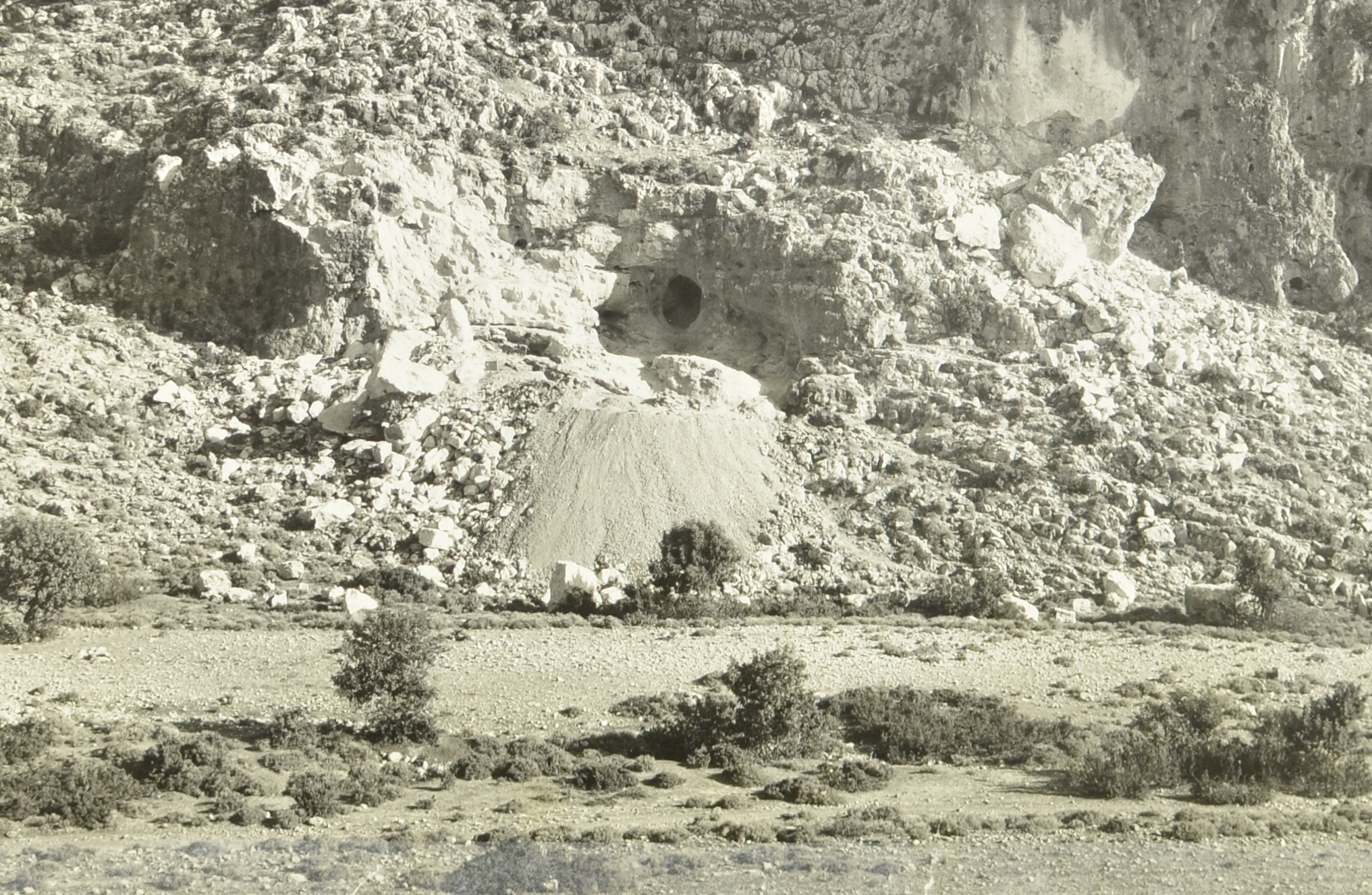 Rosic(?) shelter from oppos side of wadi. Historic photos from the Wadi el-Mughara/Nahal Mearot excavation (Israel), 1932